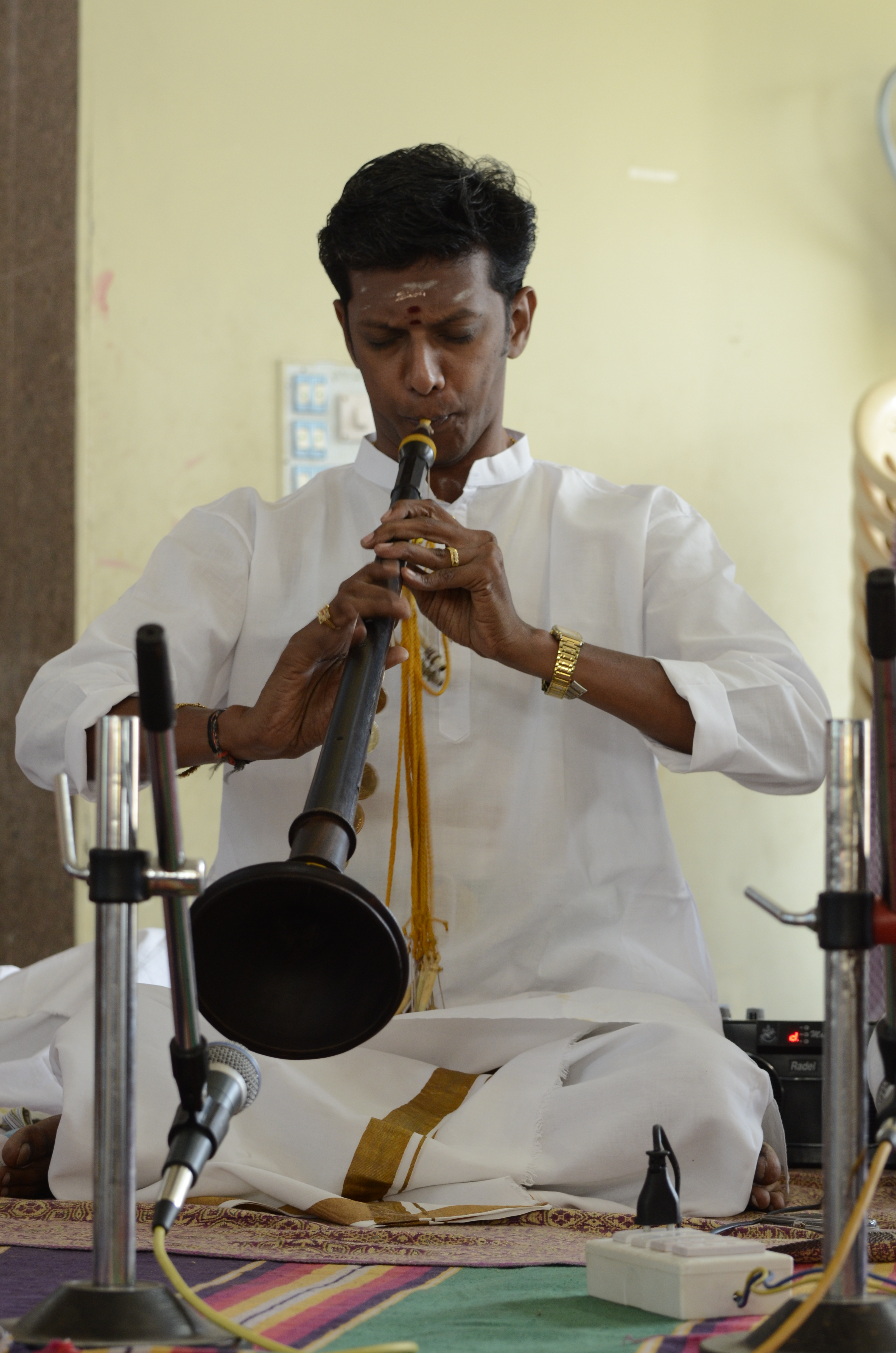 Nadaswaram1